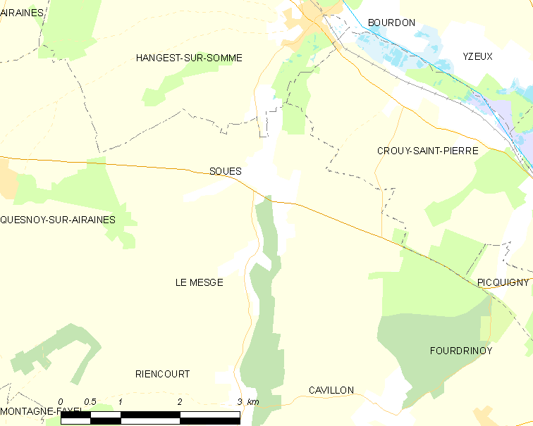 Map of French municipality Soues